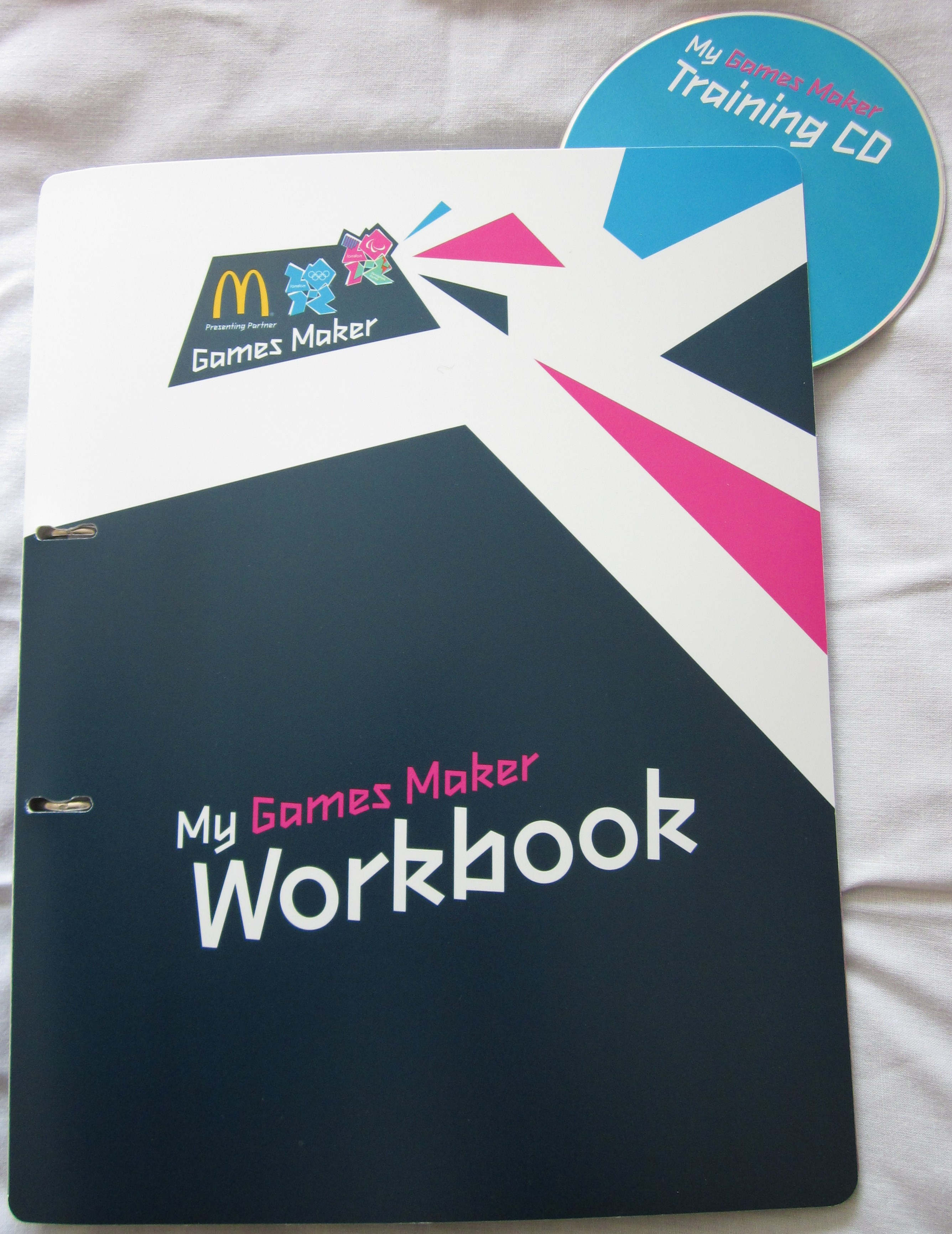 Front of the workbook given to all London 2012 Olympic Games Makers at the start of formal training.